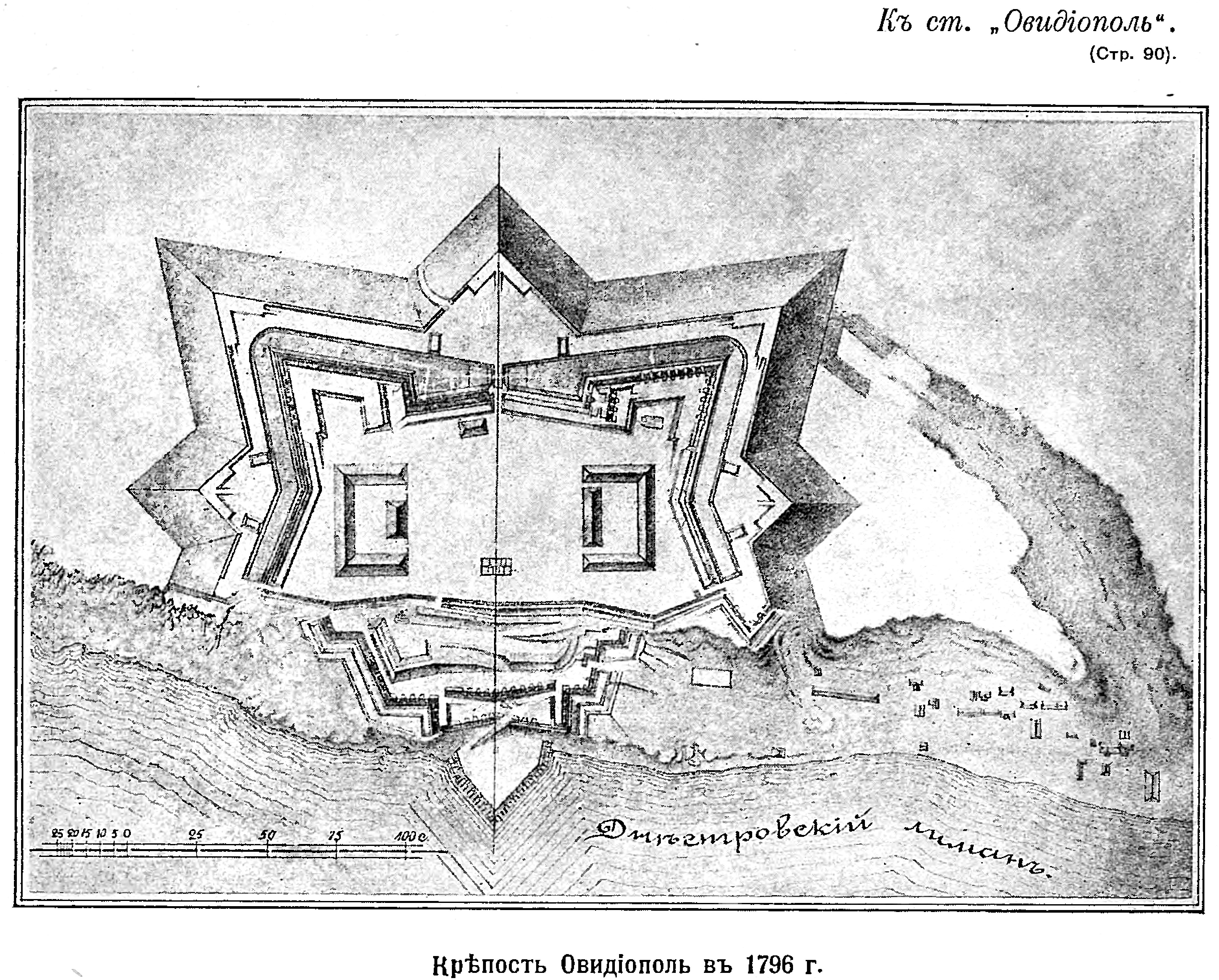 Ovidiopol. Military Encyclopedia. Vol. 17 (Saint-Petersburg, 1914).